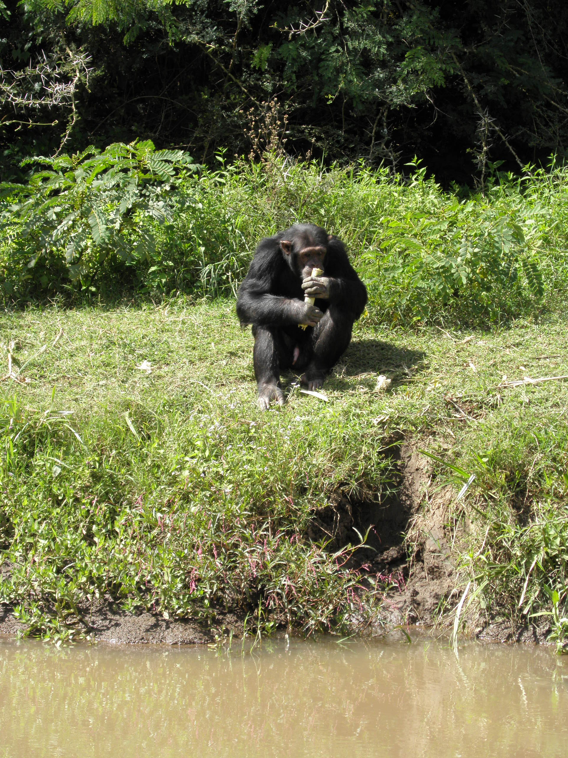 A chimpanzee in Ol Pejeta Conservancy in Kenia